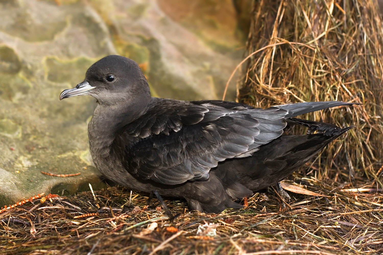 Short-tailed Shearwater (Puffinus tenuirostris) Fledgling Camera data Camera Canon EOS 400D Lens Canon EF 50mm f1.8 Focal length 50 mm Aperture f/4 Exposure time 1/100 s Sensivity ISO 400